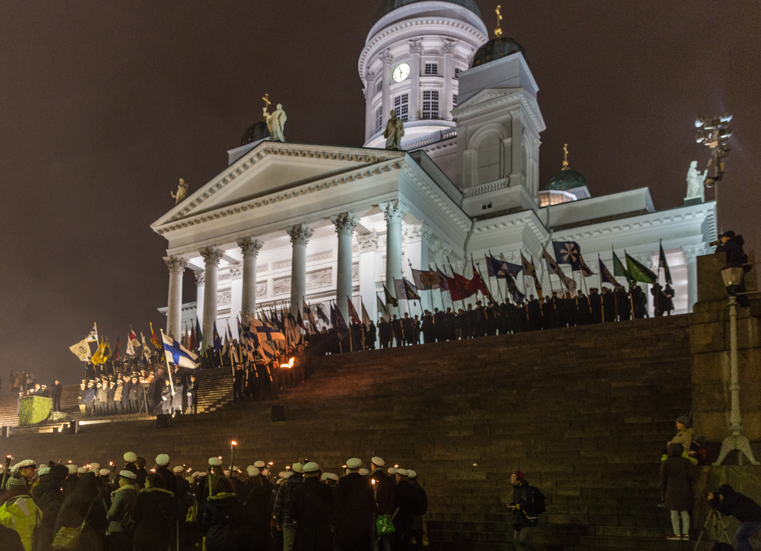 Student's torch cavalcade on Independence day 2015